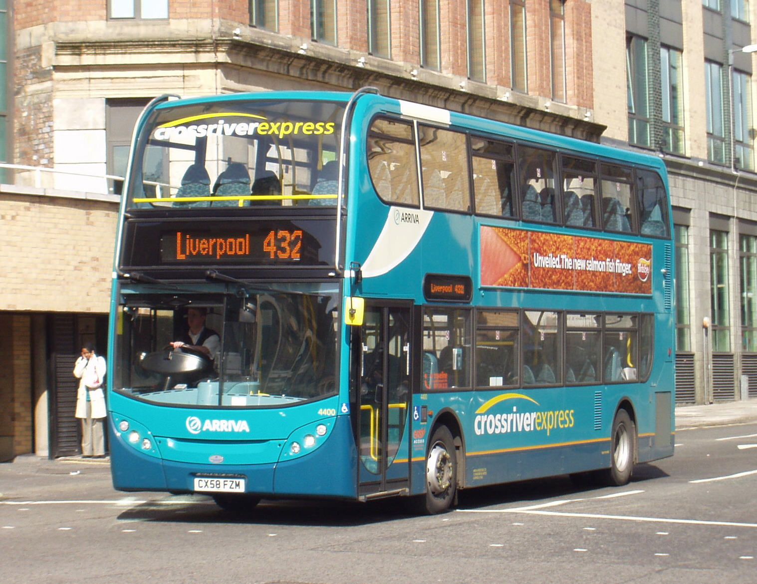 Arriva North West Alexander Dennis Enviro400 on route 432, New Brighton-Liverpool.